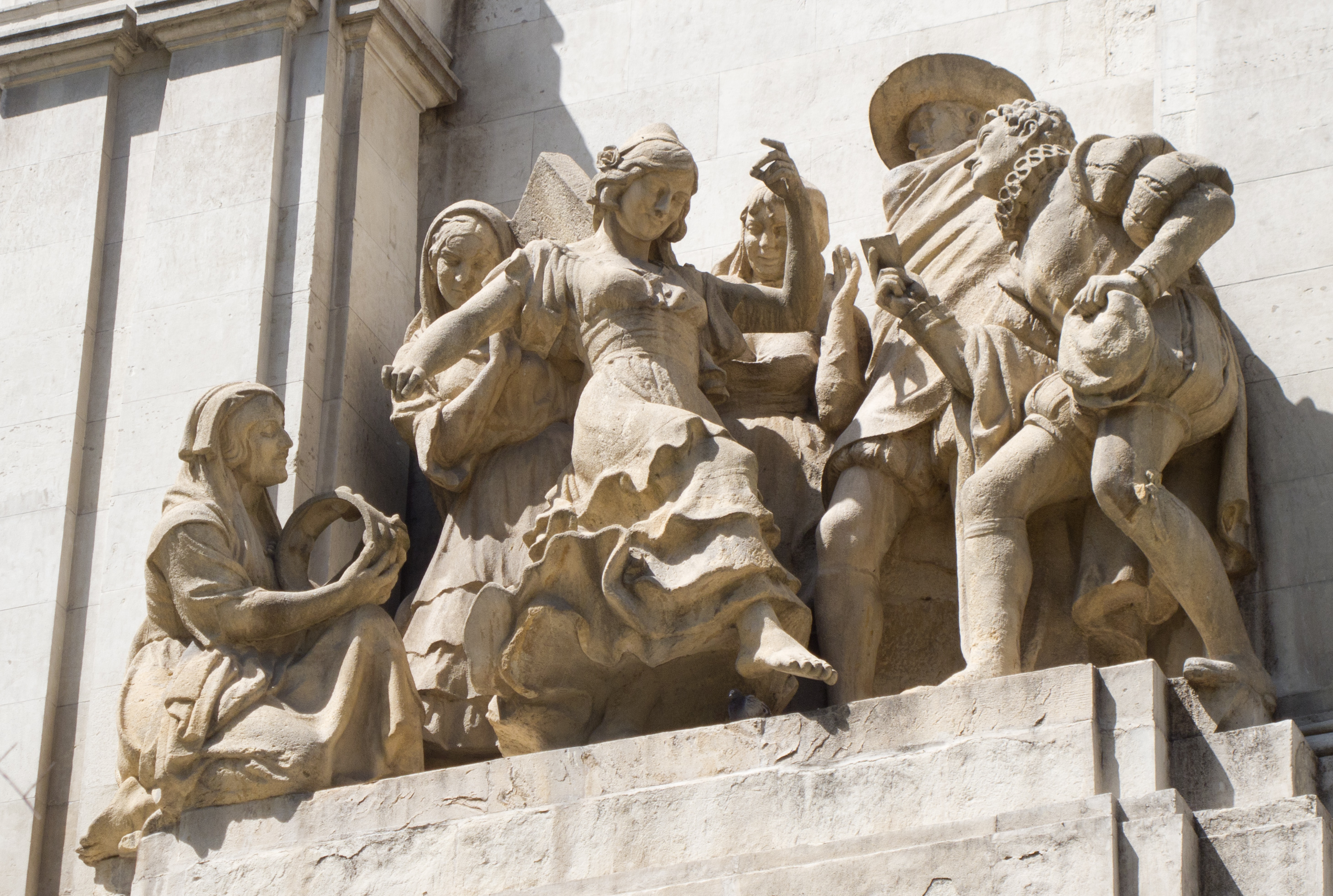 La Gitanilla in the monument to Miguel de Cervantes, Madrid.